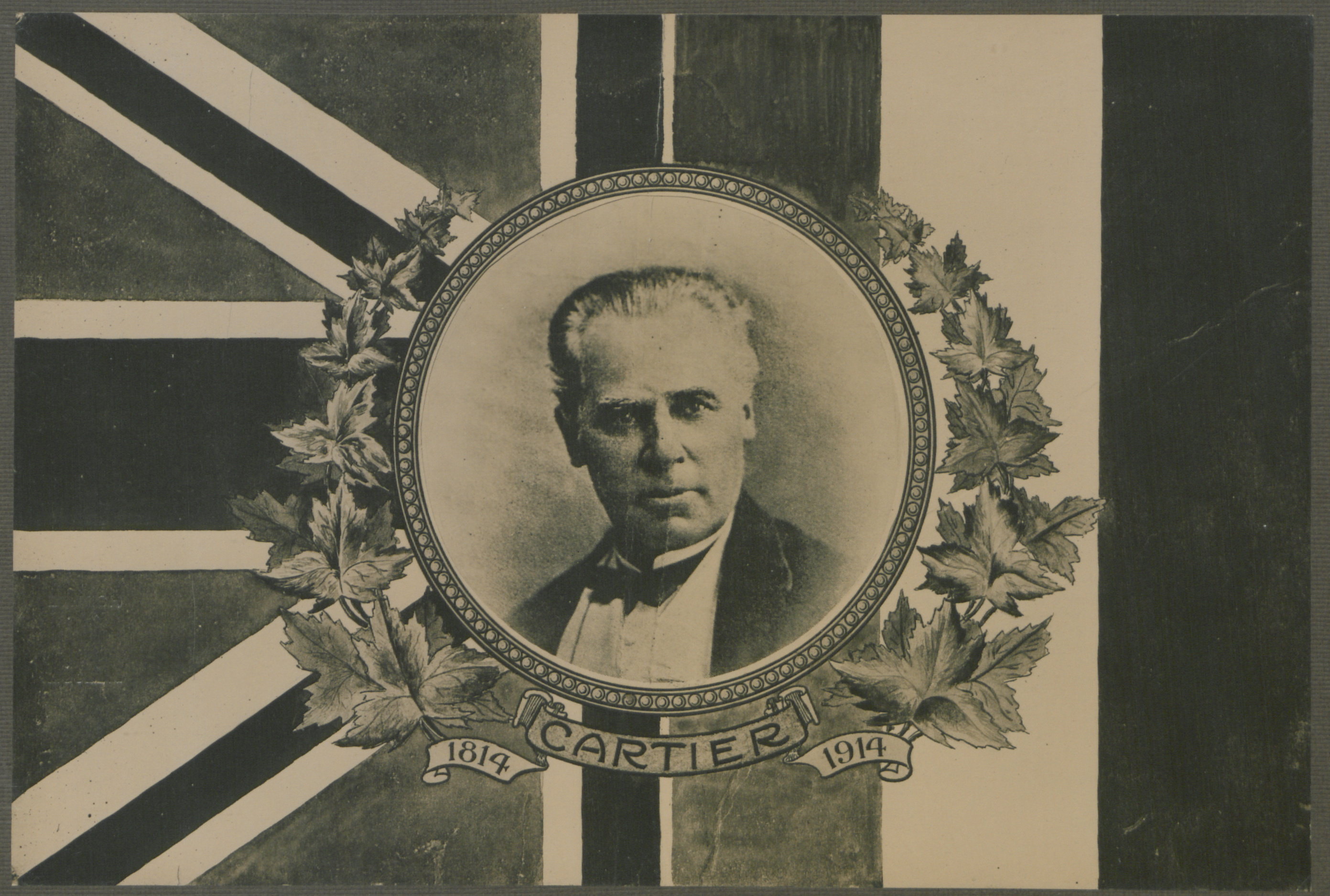 Original caption: “Cartier memorial flag.”